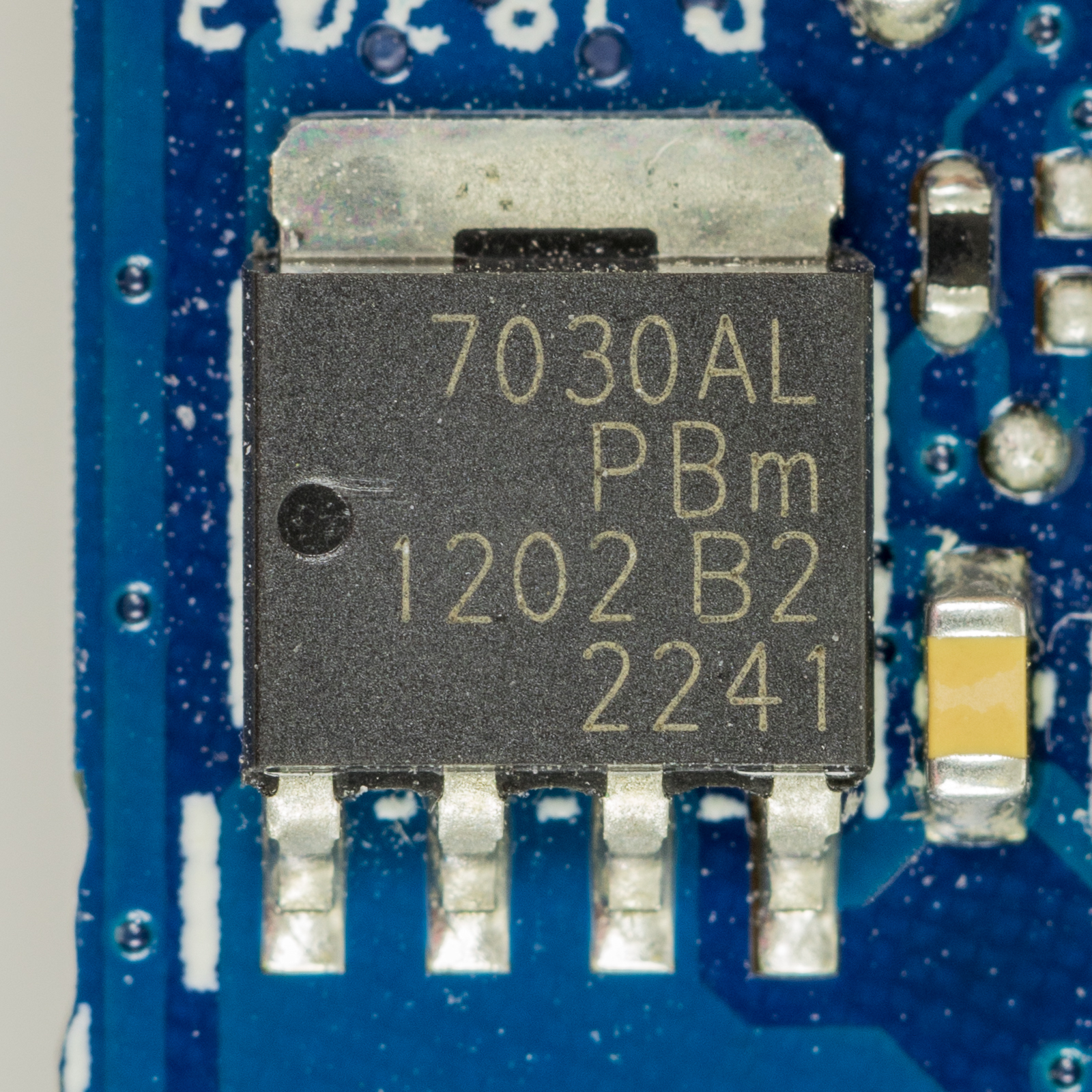 Asus Zenbook UX32V - motherboard - NXP 7030AL (PH7030AL) - N-channel TrenchMOS logic level FET. Package: LFPAK - SOT669